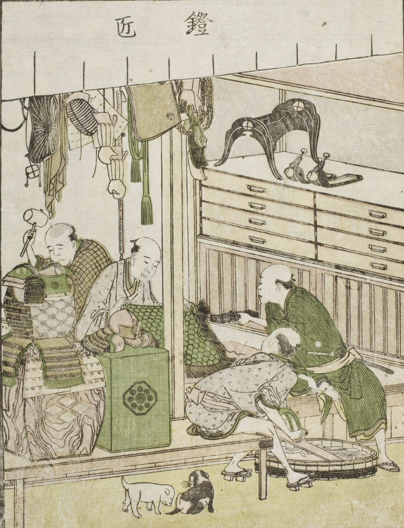 circa 1802 Prints; woodcuts Color woodblock print, page from an illustrated book Image: 8 x 6 1/16 in. (20.32 x 15.4 cm); Sheet: 10 3/8 x 6 13/16 in. (26.35 x 17.3 cm) The Joan Elizabeth Tanney Bequest (M.2006.136.152) Japanese Art